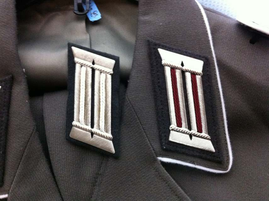 Rang insignia of the “Armed organs of the German Democratic Republic” (GDR) until 1990, here collar tabs officers (OF1 – OF5) and Fenrik (W1 – W4). on the right: “Ministry for State Security” (Stasi) corps colour “Bordeaux-red” on the left: “National People`s Army (NPA) corps colour “White” (Motorised Infantry).